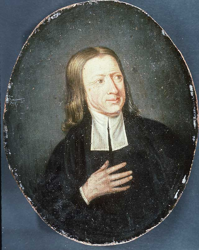 Oil painting of John Wesley